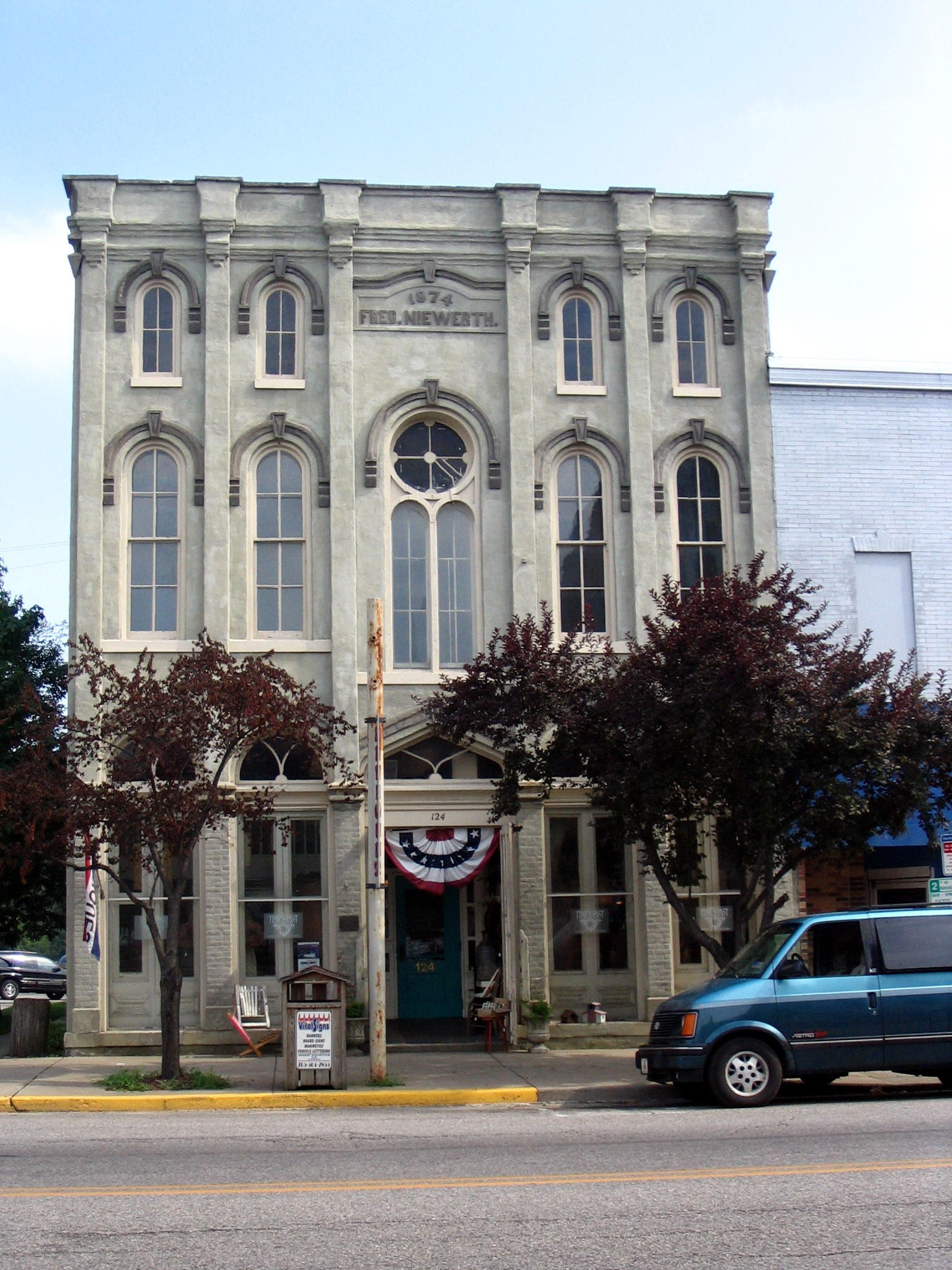 The National Register-listed Niewerth Block located at 124 E. Main St. in Delphi, Indiana